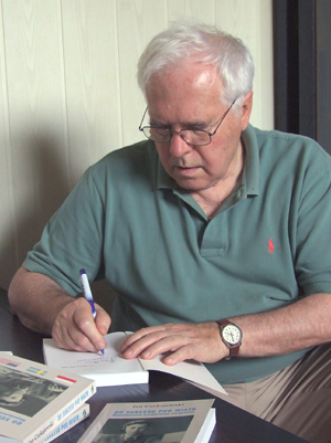 Jan Czekajewski signs his book Do sukcesu pod wiatr. Wspomnienia krnąbrnego emigranta. Czekajewski was born in Poland in 1934. He holds an M.S. in electrical engineering from Wroclaw Technical University in Poland and a Ph.D. from Uppsala University in Sweden. In 1968, he emigrated to the United States, and in 1970, he founded Columbus Instruments, a manufacturer and exporter of medical research equipment, of which he is owner and president. He is a member of Polonia Technica.